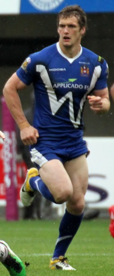 Sean O'Loughlin playing for the Wigan Warriors at the Stade Yves-du-Manoir in Montpellier